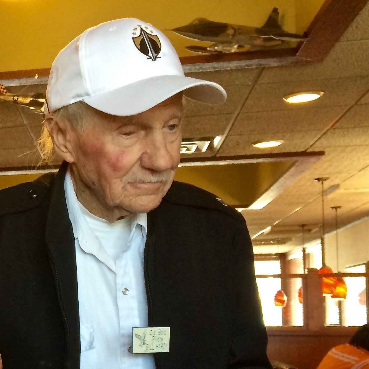 World War II fighter ace Willis "Bill" Hardy at the Old Bold Pilots Association breakfast in Oceanside, California in 2014